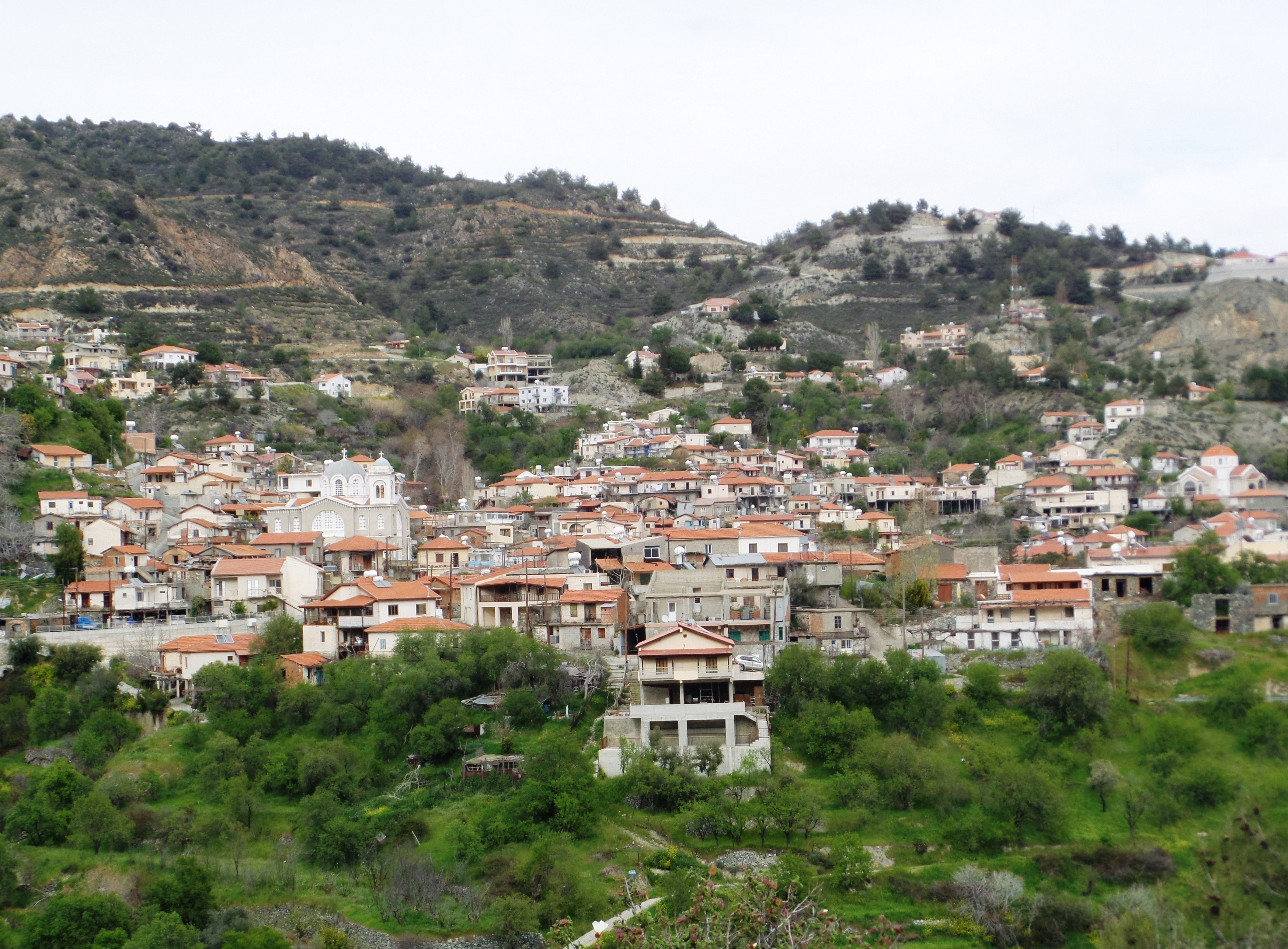 View of Pelendri.